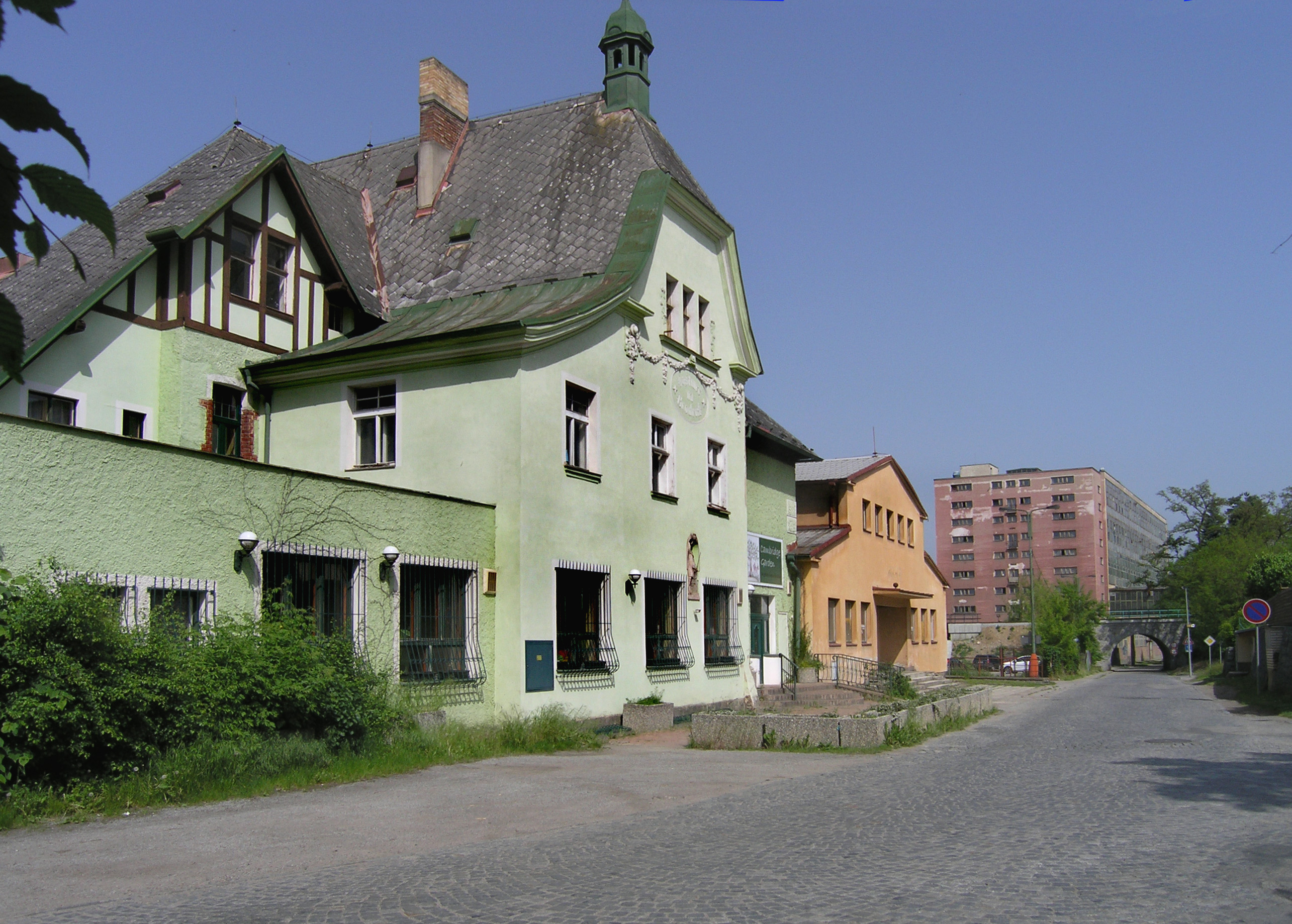 Brodce, part of Týnec nad Sázavou, Czech Republic